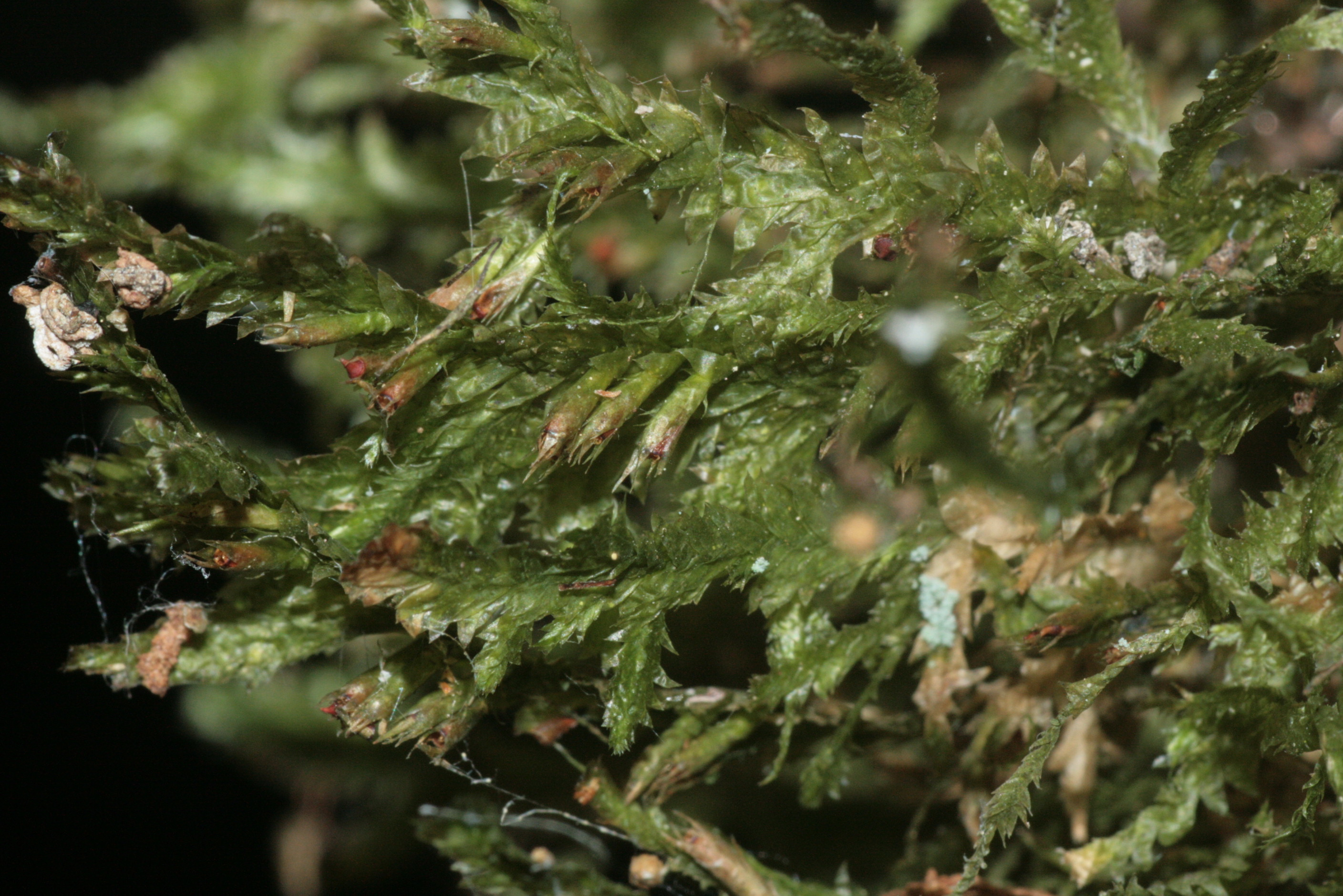 Neckera pennata